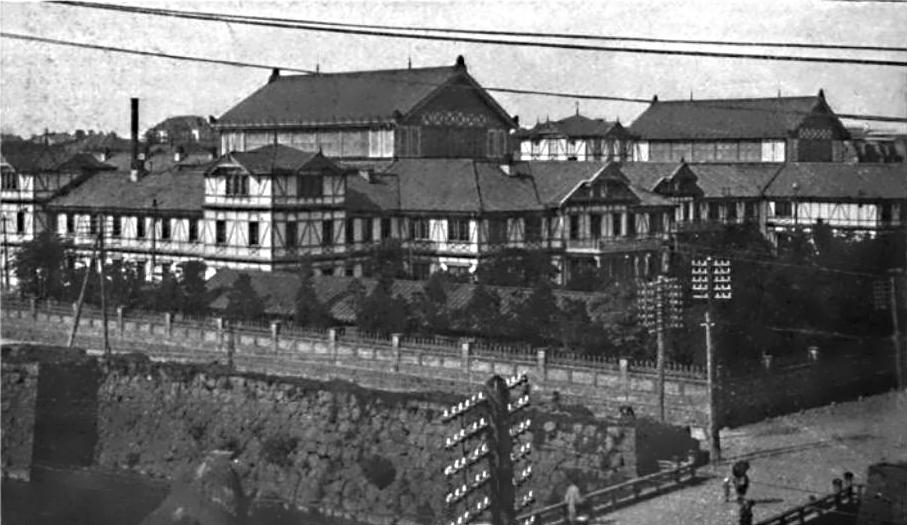 Photograph of the buildings housing the Diet of Japan circa 1905. Caption:"The Houses of Parliament, Tokyo. Though fine stone buildings have been erected for many public offices, these are still of wood, and very simple in structure. The two great halls stand in the same structure, the one to the left and nearest the spectator being the House of Representatives, the farther one the House of Peers. The lower buildings, running all around, contain offices and lobbies for both Houses."